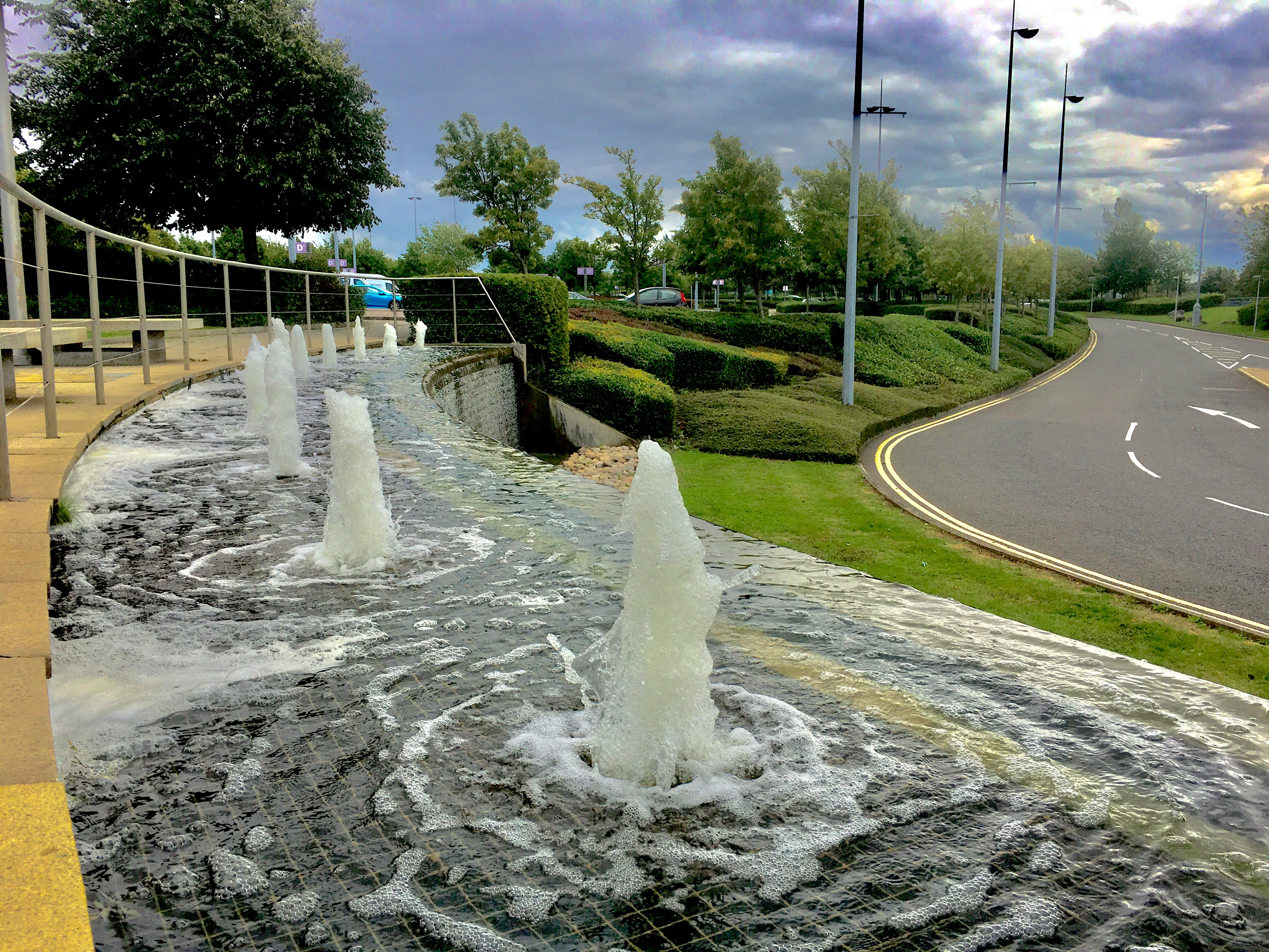 A Foam Fountain at the Mall Cribbs Causeway